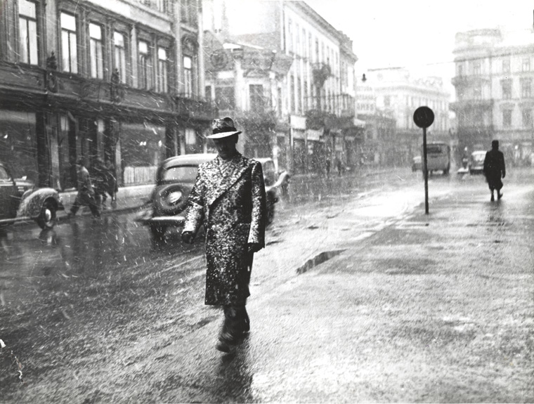 In winter on Victory Avenue across from Capşa